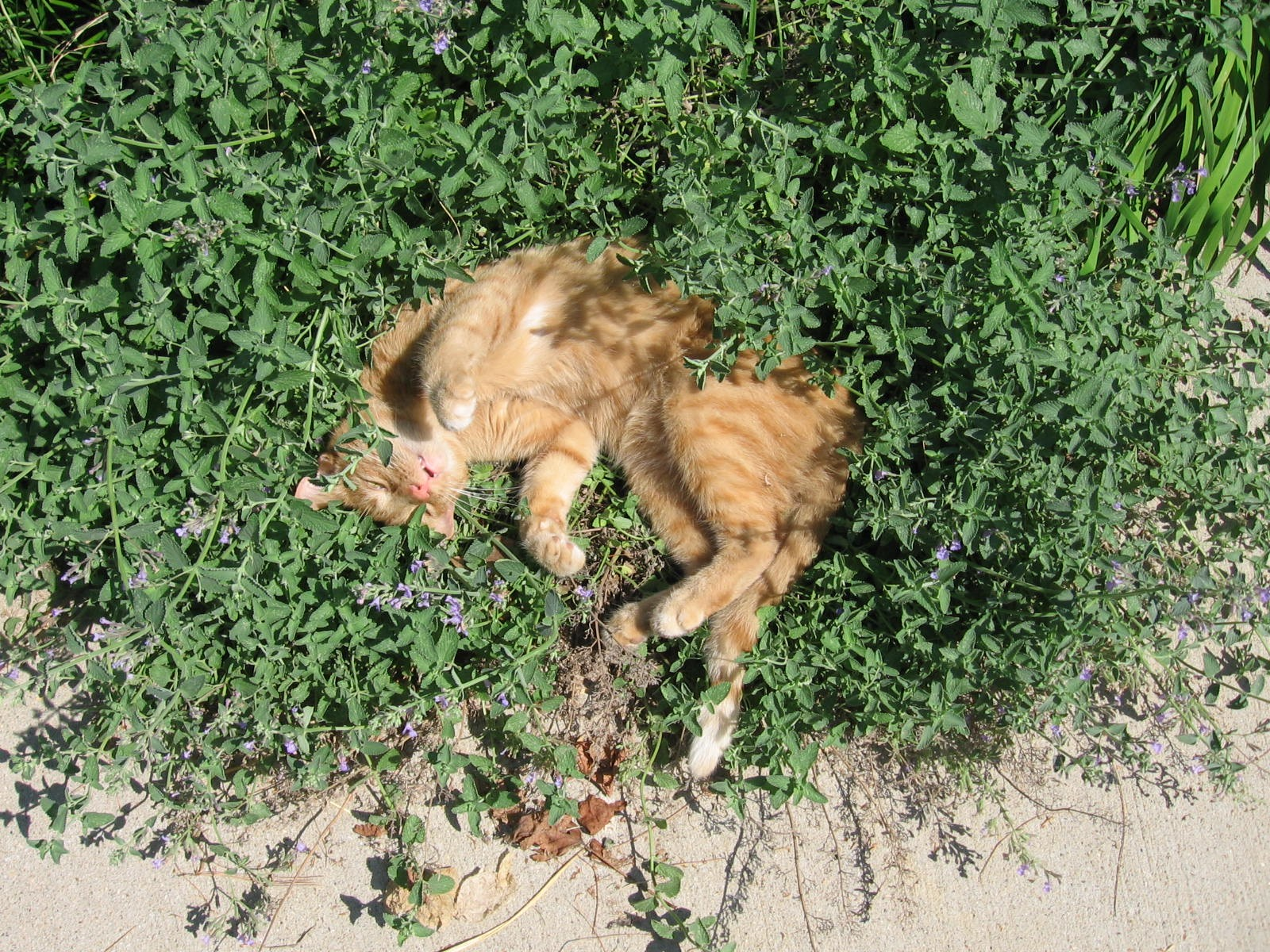 A jinger cat sleeping in catmint (Nepeta × faassenii hybrid).